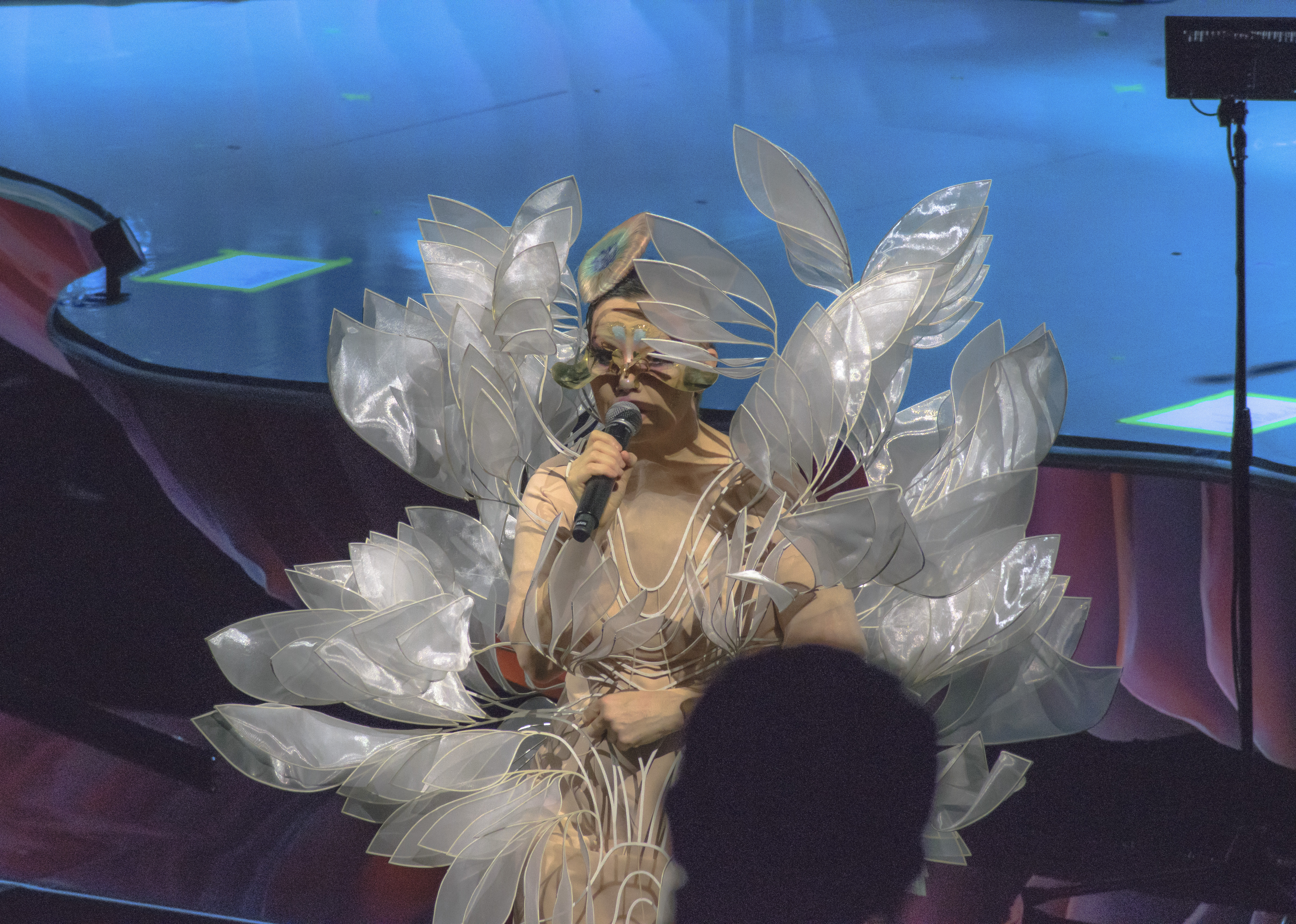 Björk during her residency show "Cornucopia" at The Shed in New York on May 6, 2019